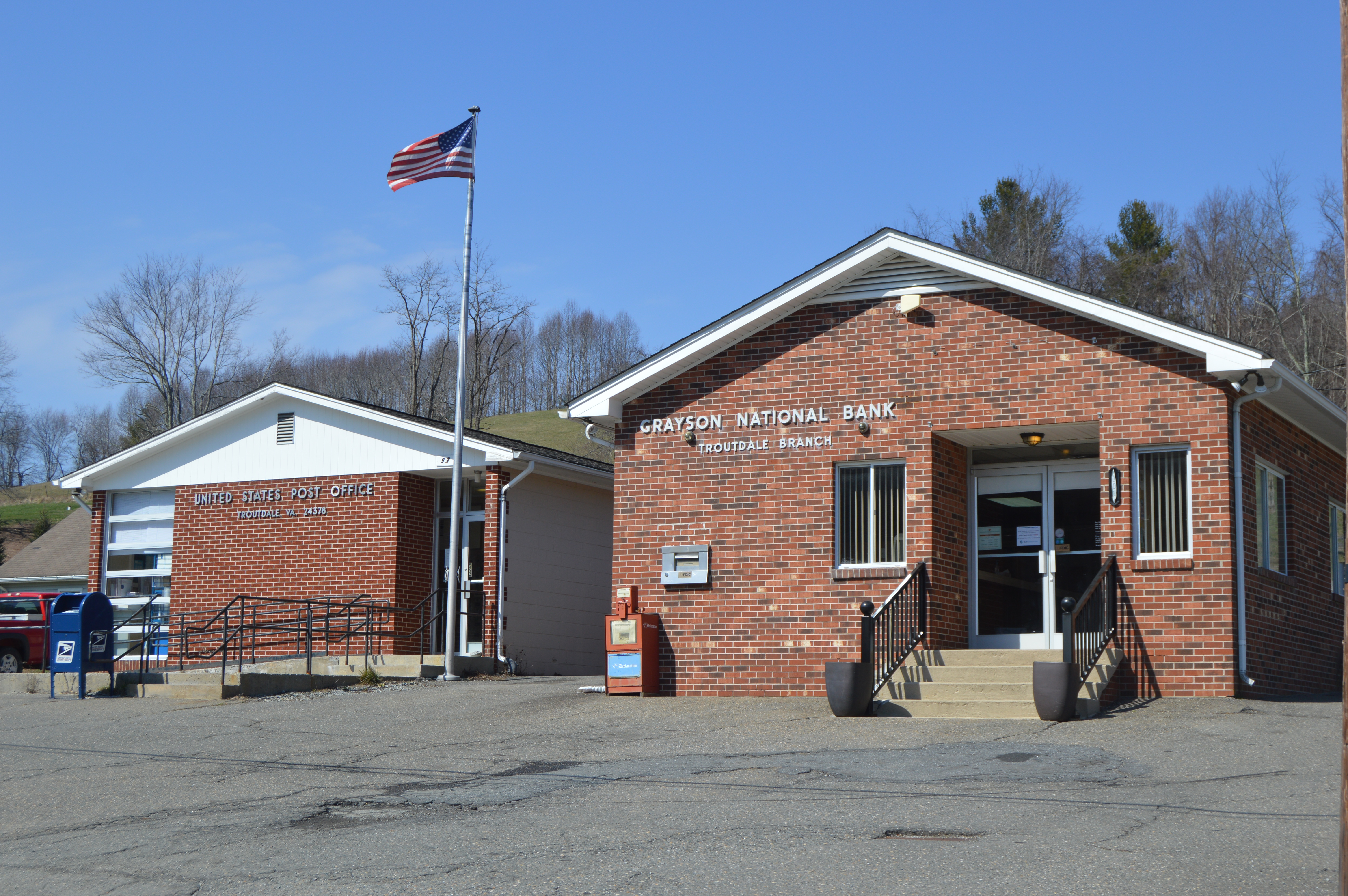 Front of the Troutdale post office and bank, located on Ripshin Road at Troutwood in Grayson County, Virginia, United States.